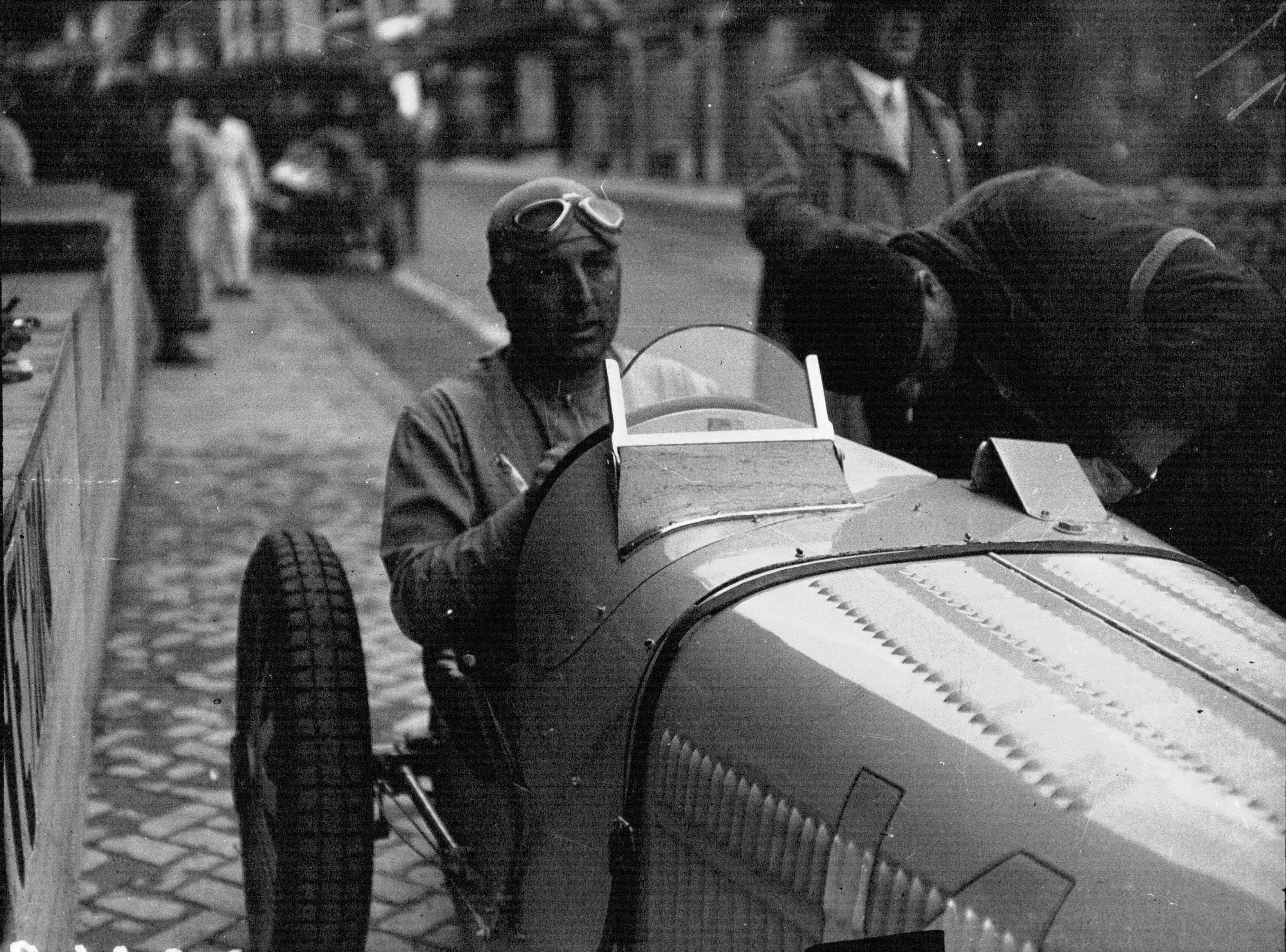 Louis Braillard at the 1934 Grand Prix automobile de Montreux with Bugatti T51 2.3L